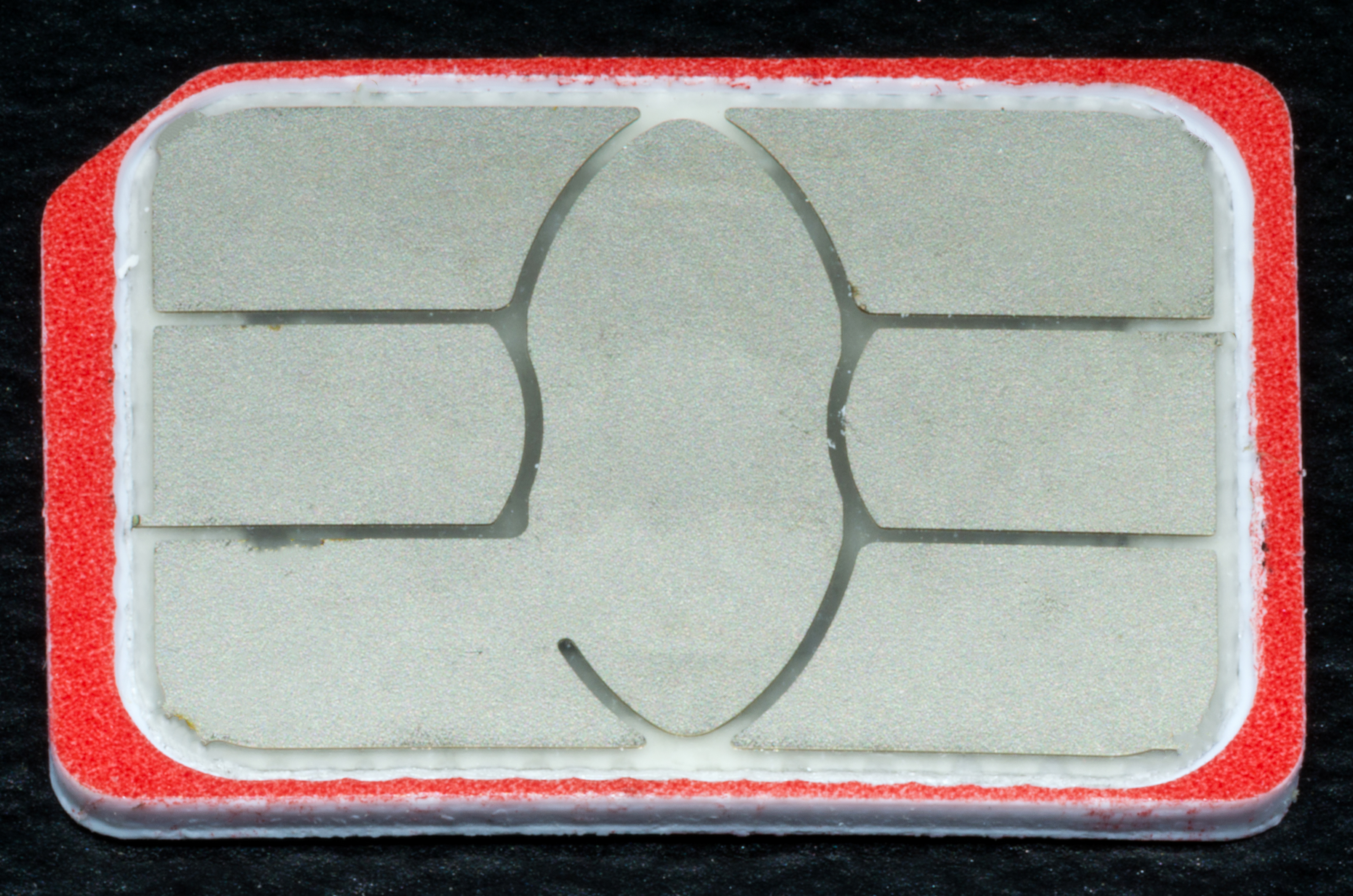 High resolution image of a mobile nano sim.